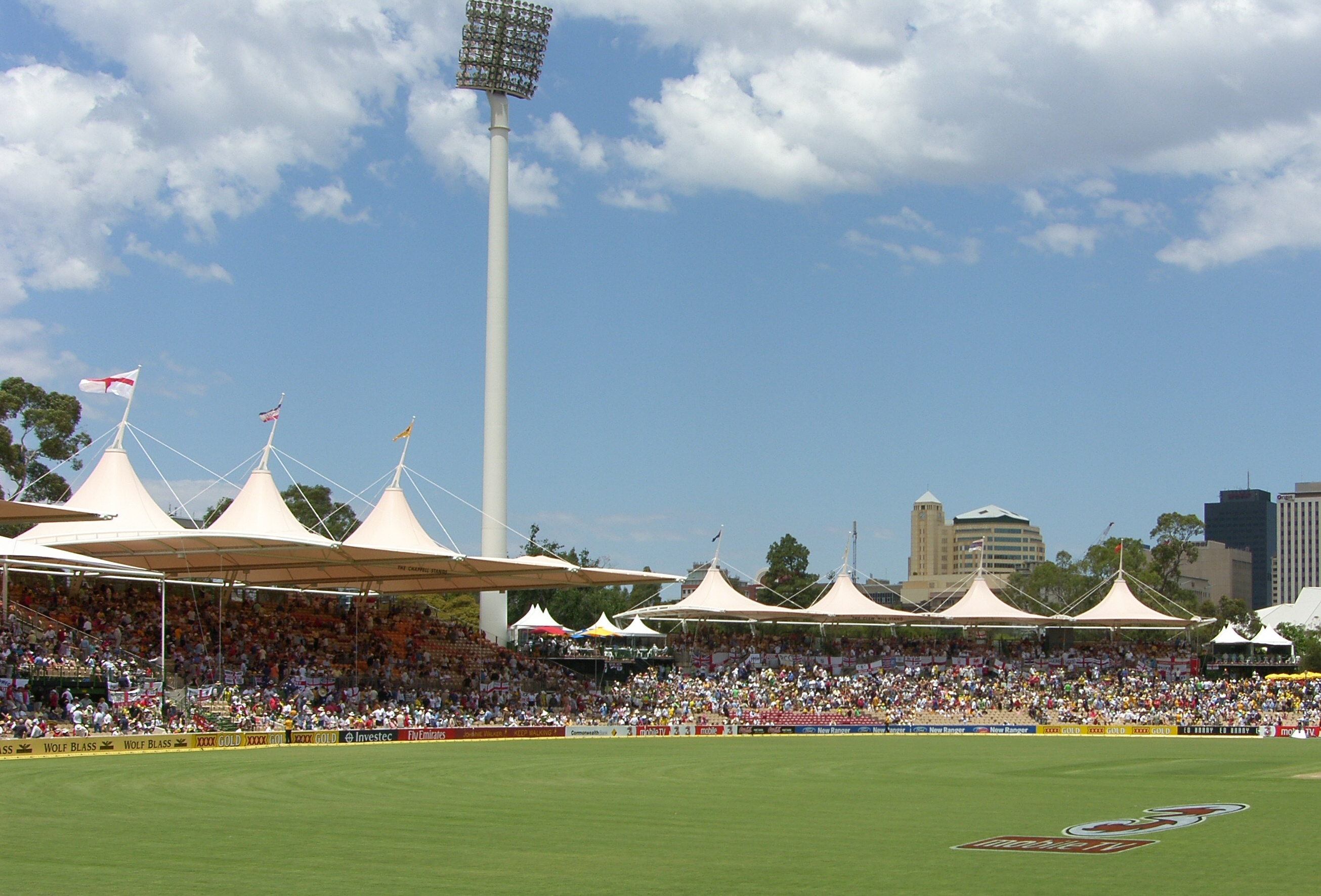 Adelaide Oval during a cricket match in 2006. The Chappell Stands at the Adelaide Oval, opened in 2003. Chappell stands packed for Australia v England December 2006. The Adelaide Oval during the 2006/07 Ashes series. (Adelaide Oval, Australia, in 2006)